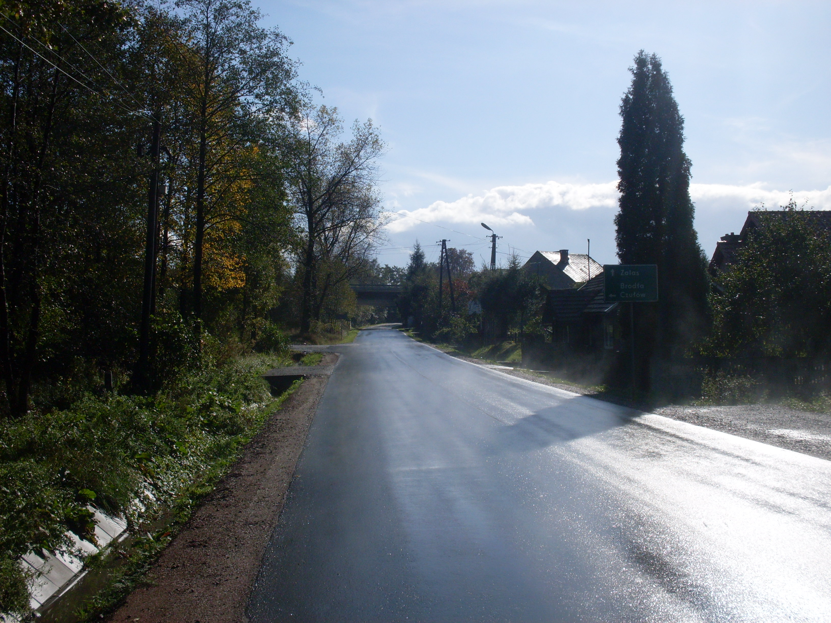 Zalas. Rogatka